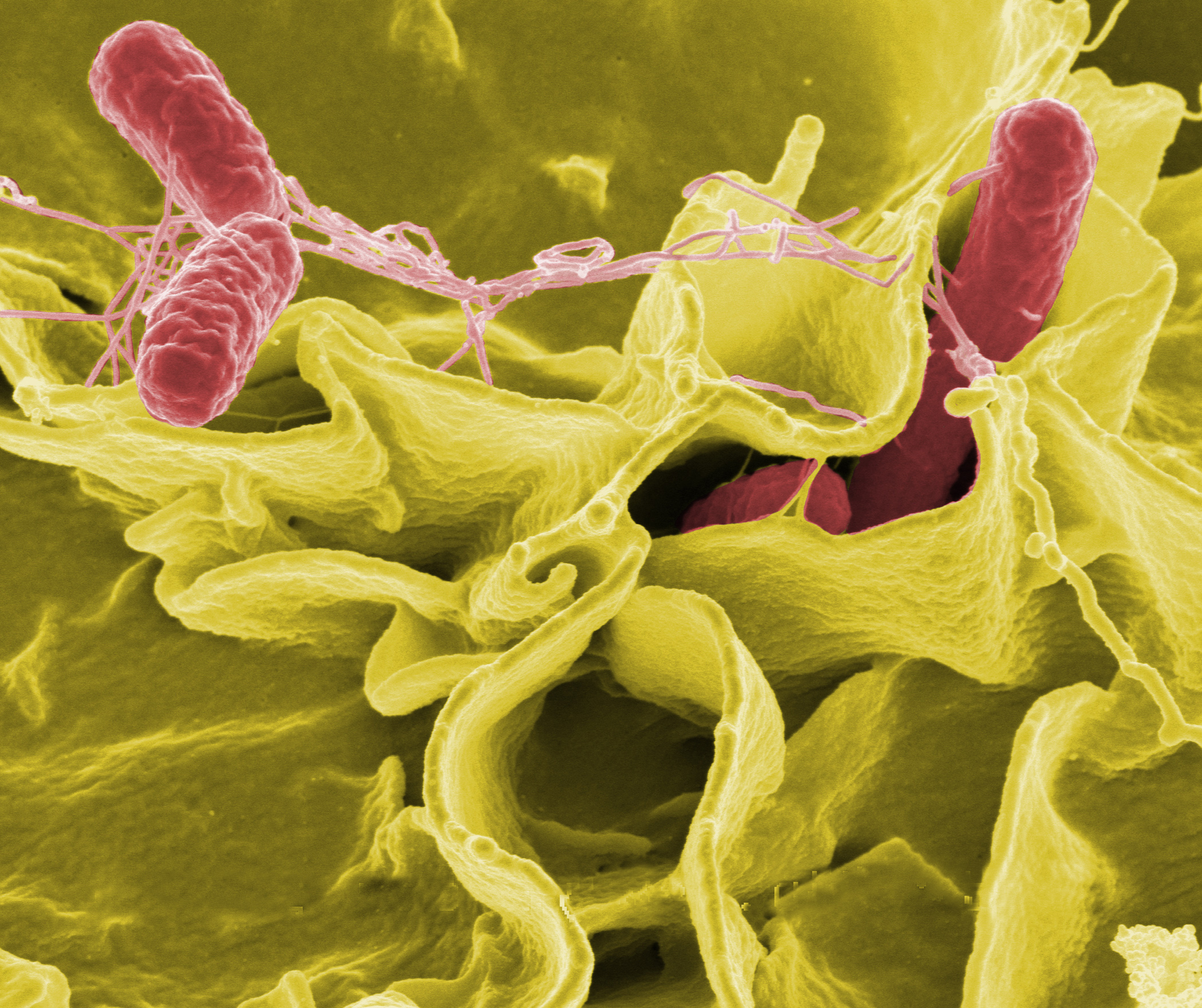 Color-enhanced scanning electron micrograph showing Salmonella Typhimurium (red) invading cultured human cells Credit: Rocky Mountain Laboratories, NIAID, NIH All the images, except specified ones from the World Health Organization (WHO), are in the public domain. For the public domain images, there is no copyright, no permission required, and no charge for their use.